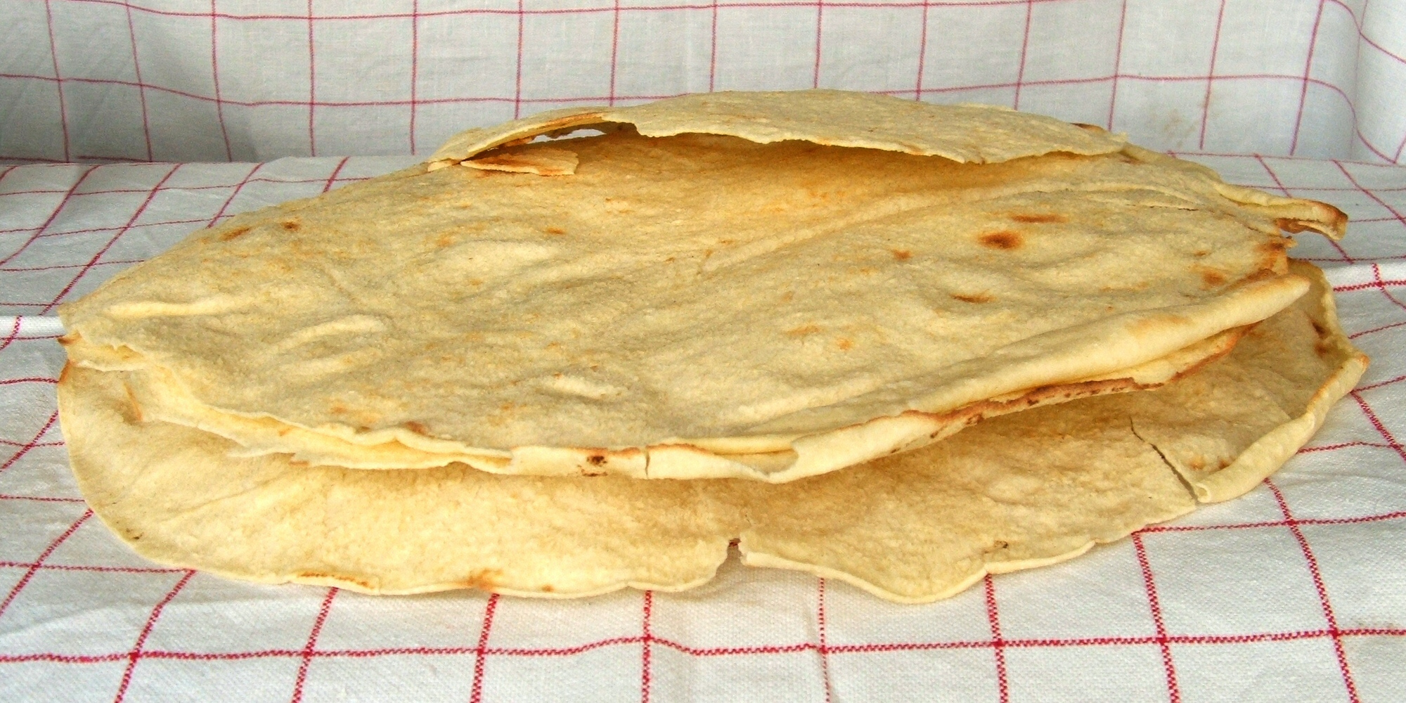 Pane Carasau, tipical bread of Sardinia, Italy